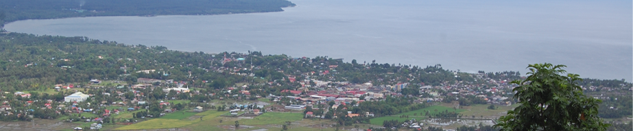 View of Gingoog city from the mountains.